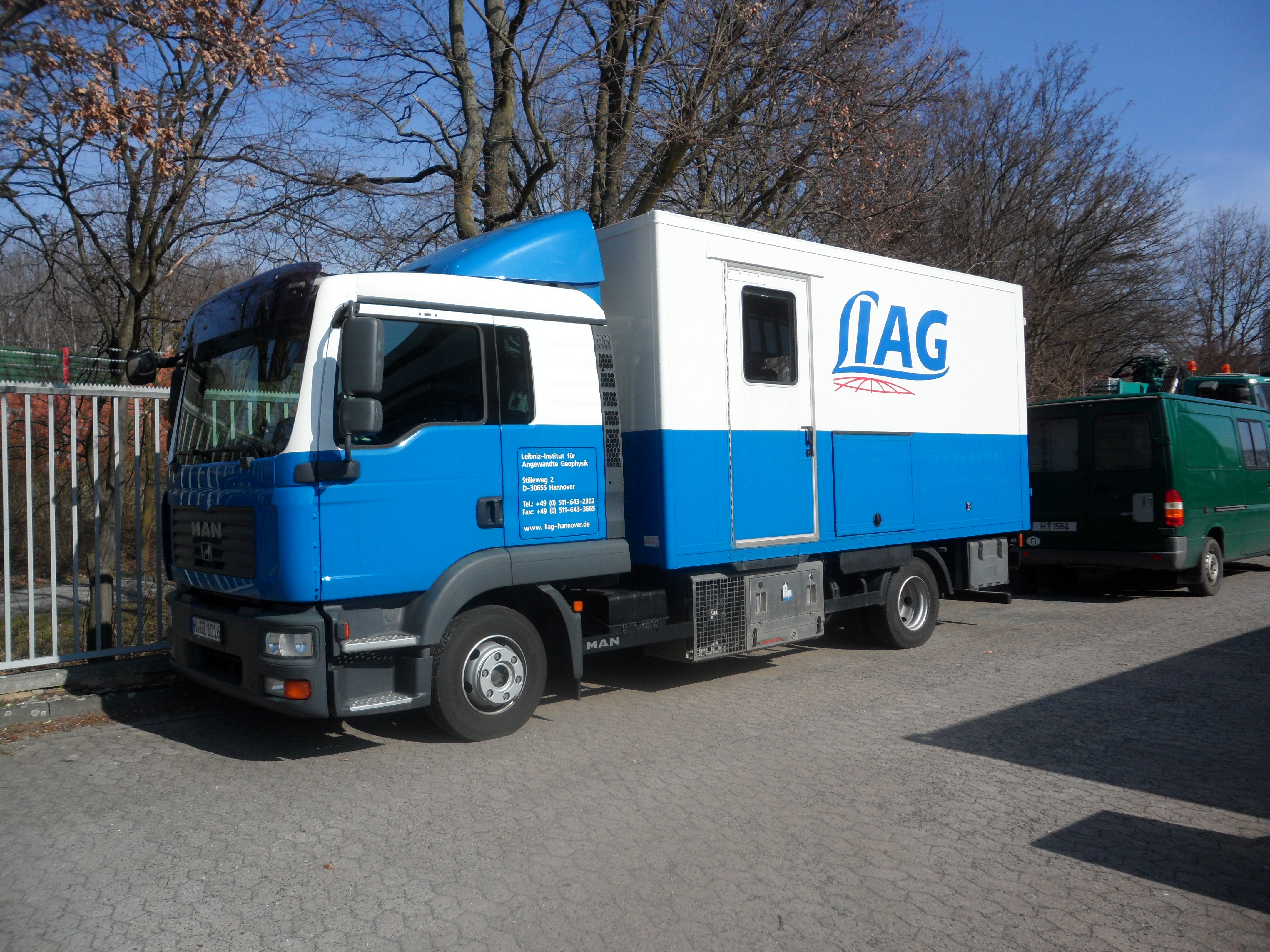 Truck of the Leibniz-Institut für Angewandte Geophysik in Hannover